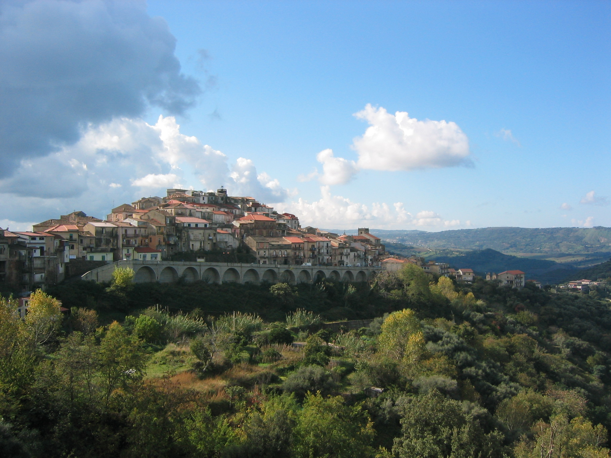 Photograph of Monterosso Calabro, Italy.